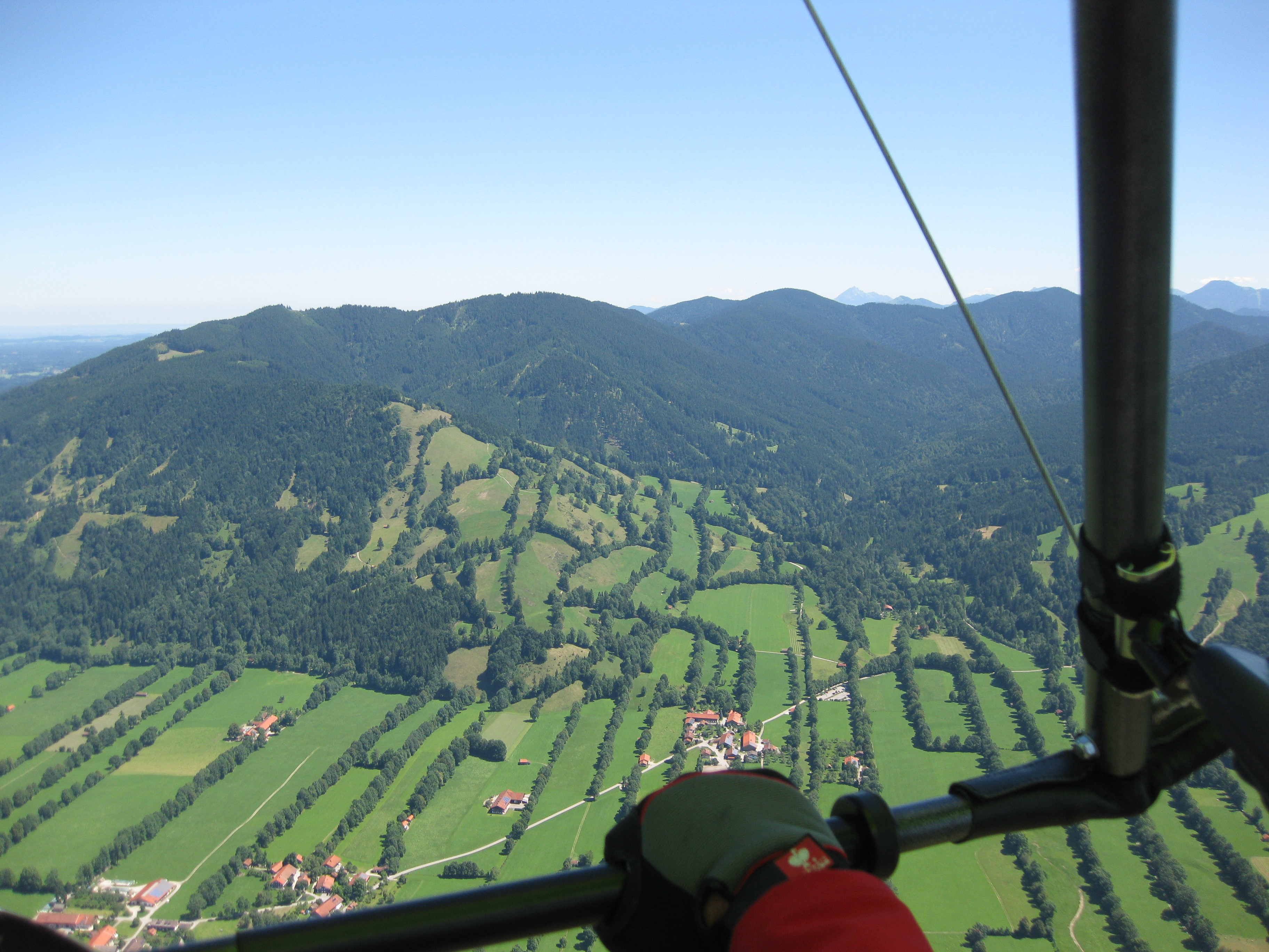 aerial photography of Sonntratn (mountain grassland) and mountain Rechelkopf in Gaissach near Bad Tölz (Germany/Bavaria)